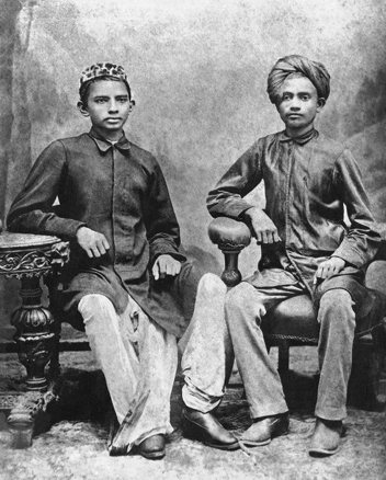 Gandhi (left) with his class mate Sheikh Mehtab (right) at Rajkot, 1883